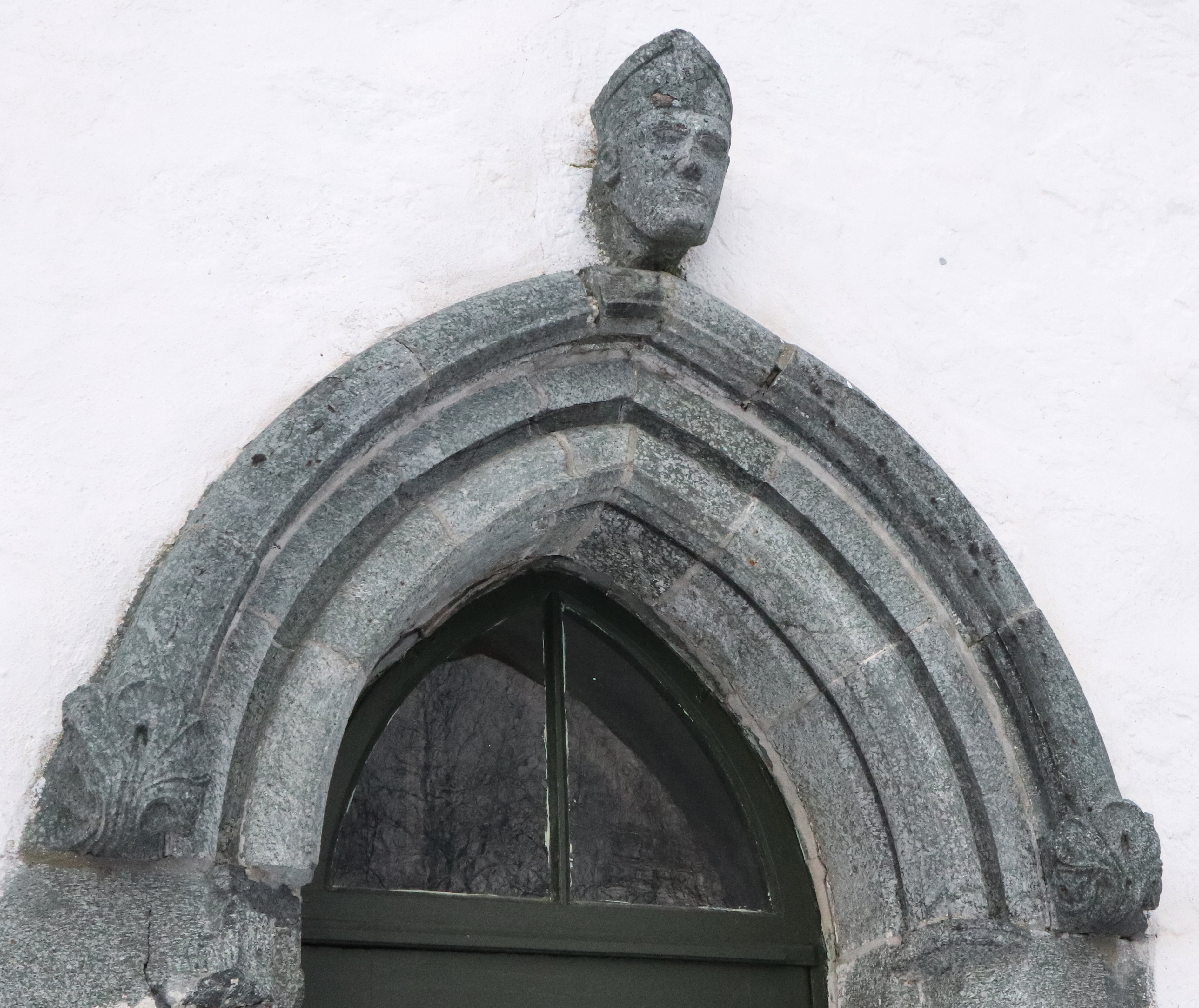 Detail, Øyestad church